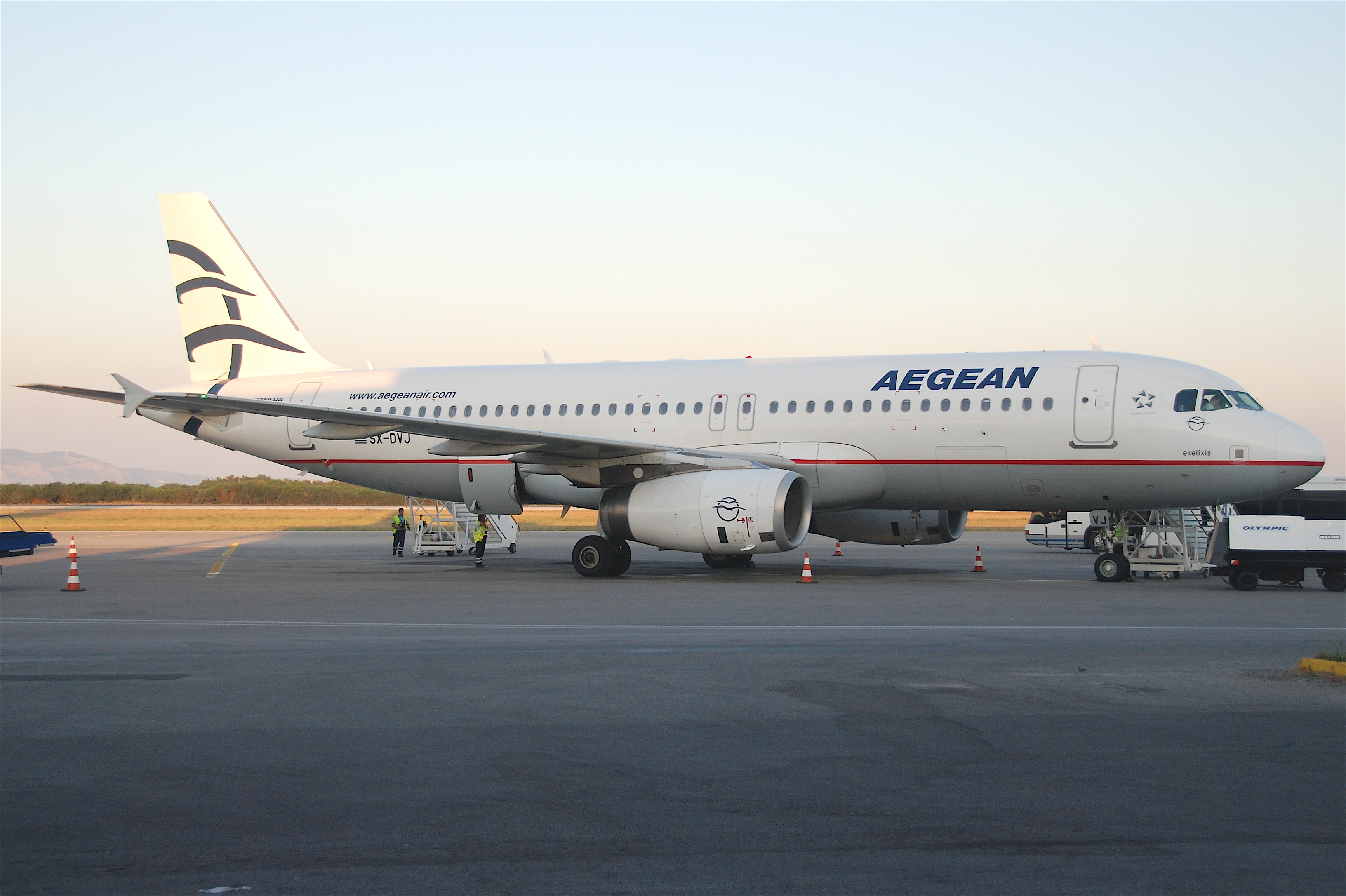 My ride to Athens that day...